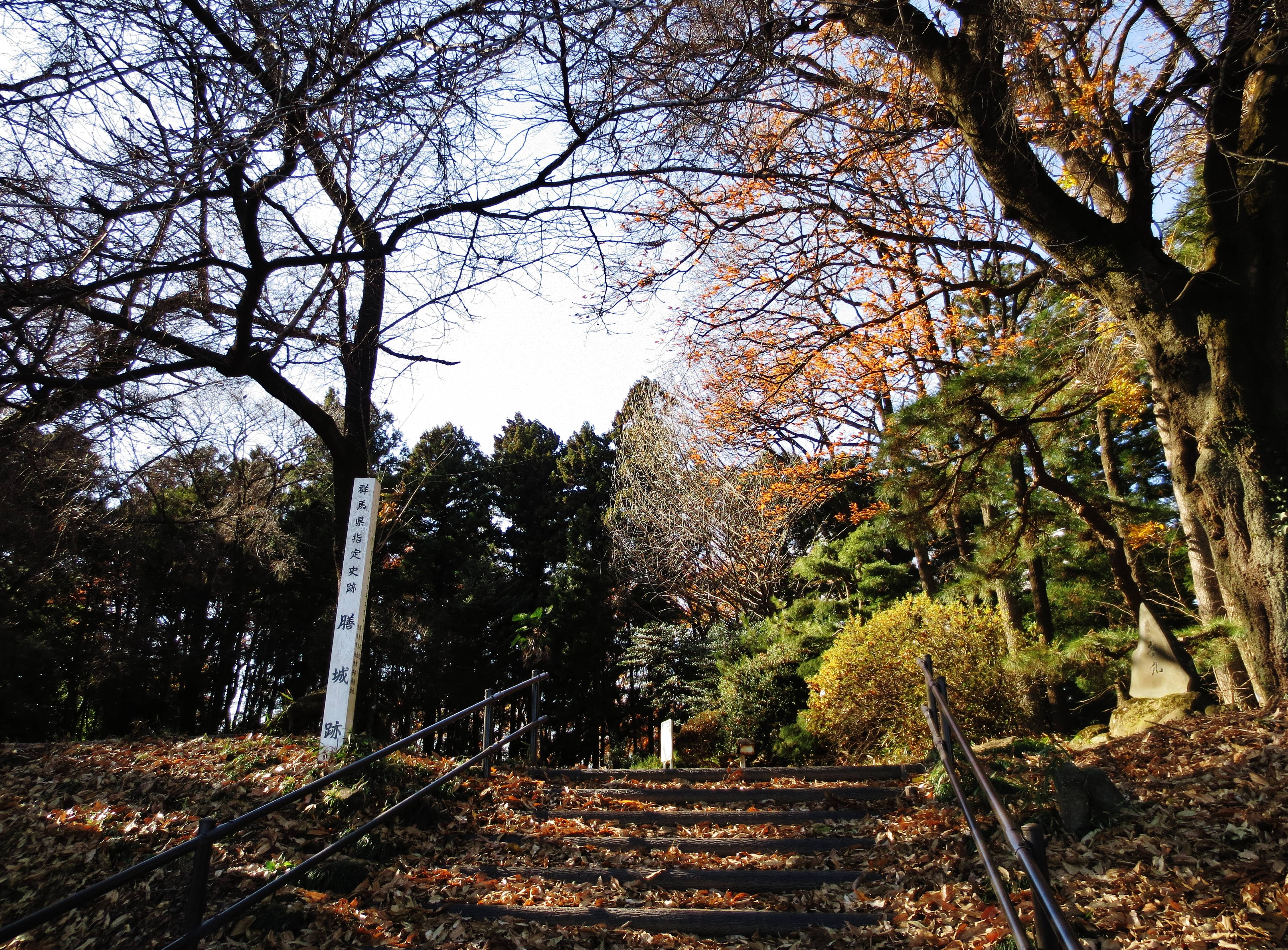 Zen Castle.